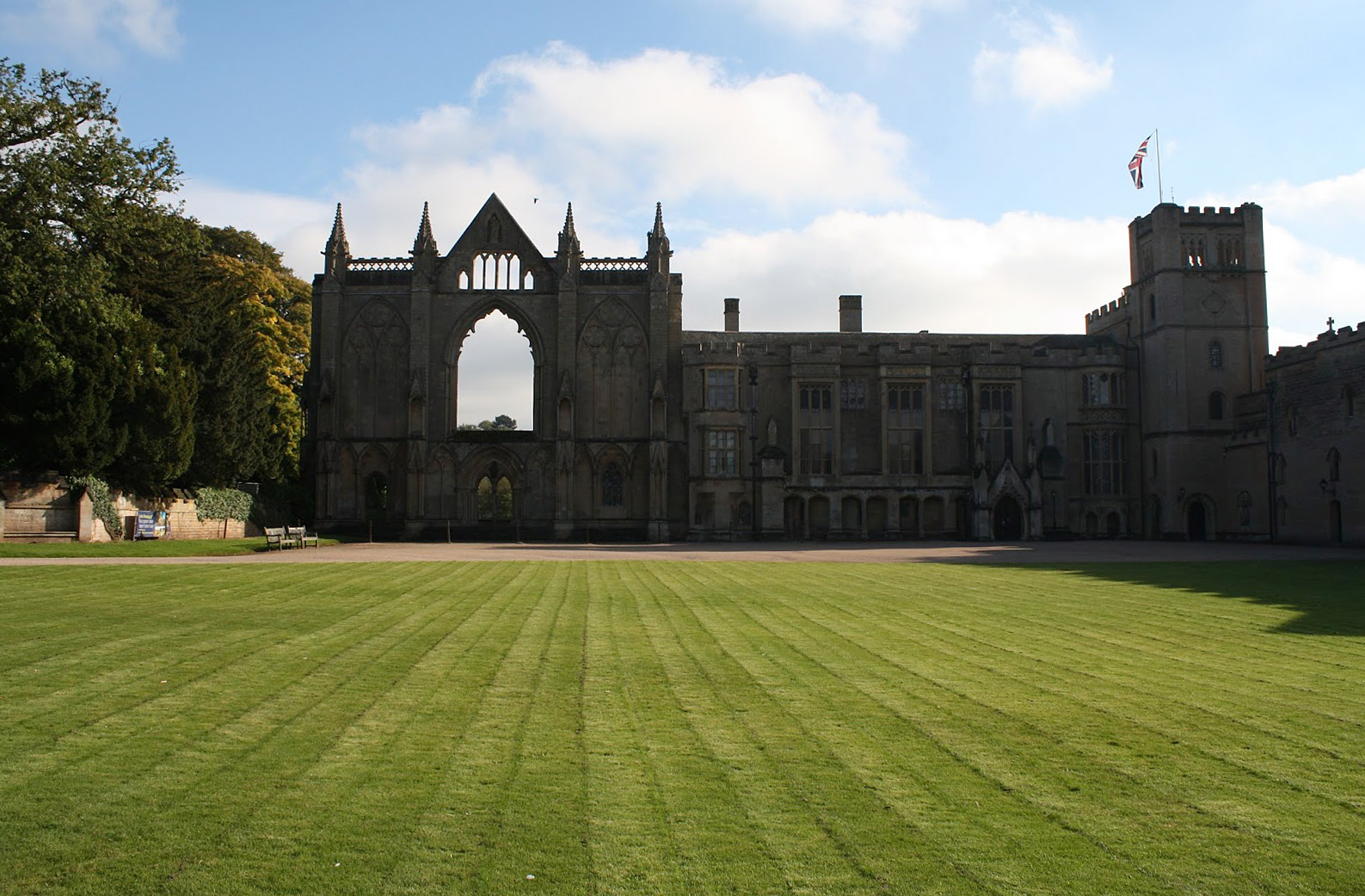 Newstead Abbey, England